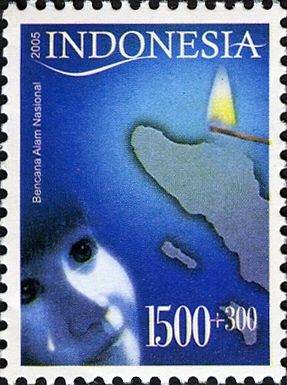 Stamps of Indonesia